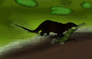 Hapalodectes cropped